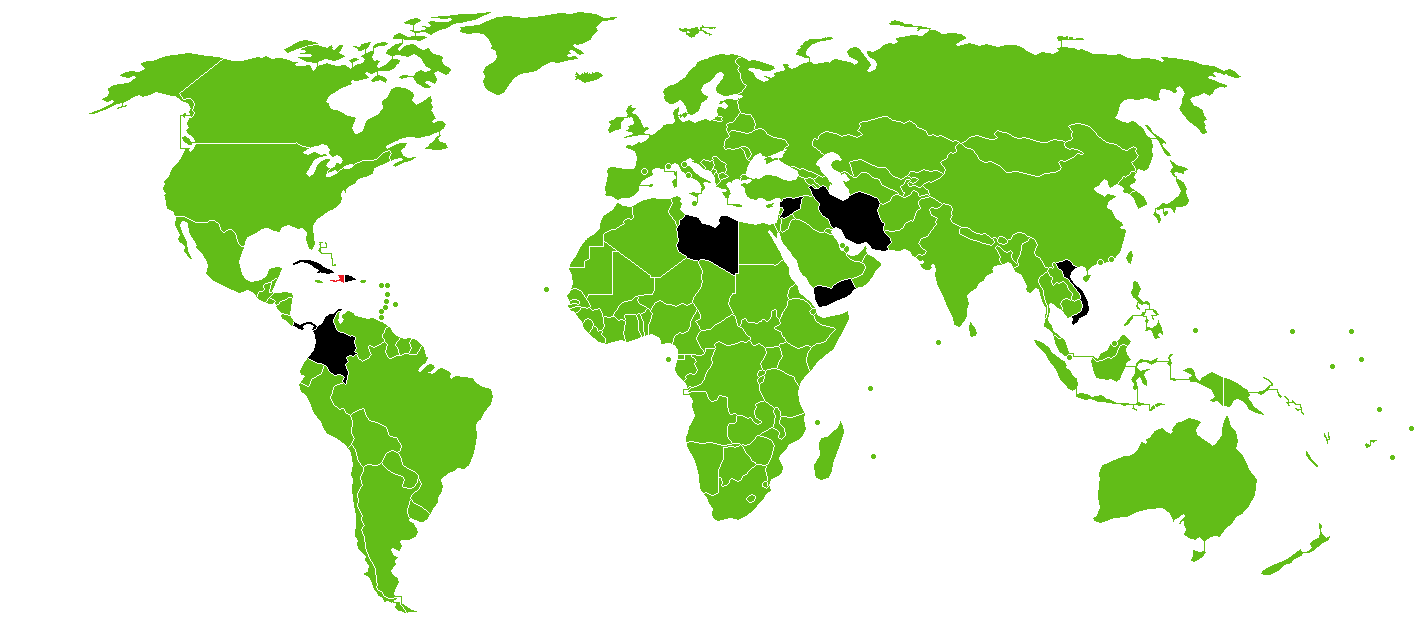 Visa policy of Haiti Haiti Visa free Visa required